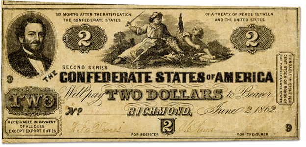 2 Dollars Confederate States of America banknote dated June 2, 1862.